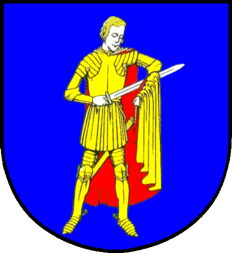 Coat of arms of the former Amt (county) Kirchspielslandgemeinde Tellingstedt Blasonierung: In Blau ein golden gerüsteter, barhäuptiger Ritter in Vorderansicht, der unter dem abgewinkelten linken Arm seinen rotgefütterten goldenen Umhang mit einem silbernen Schwert durchschneidet (St. Martin).